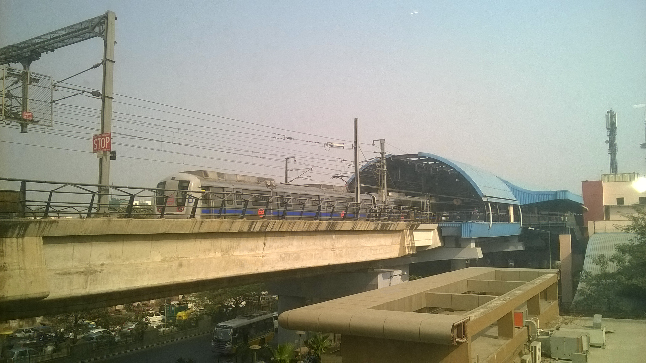 Janakpuri West Metro Station as seen from Hypercity, Janakpuri